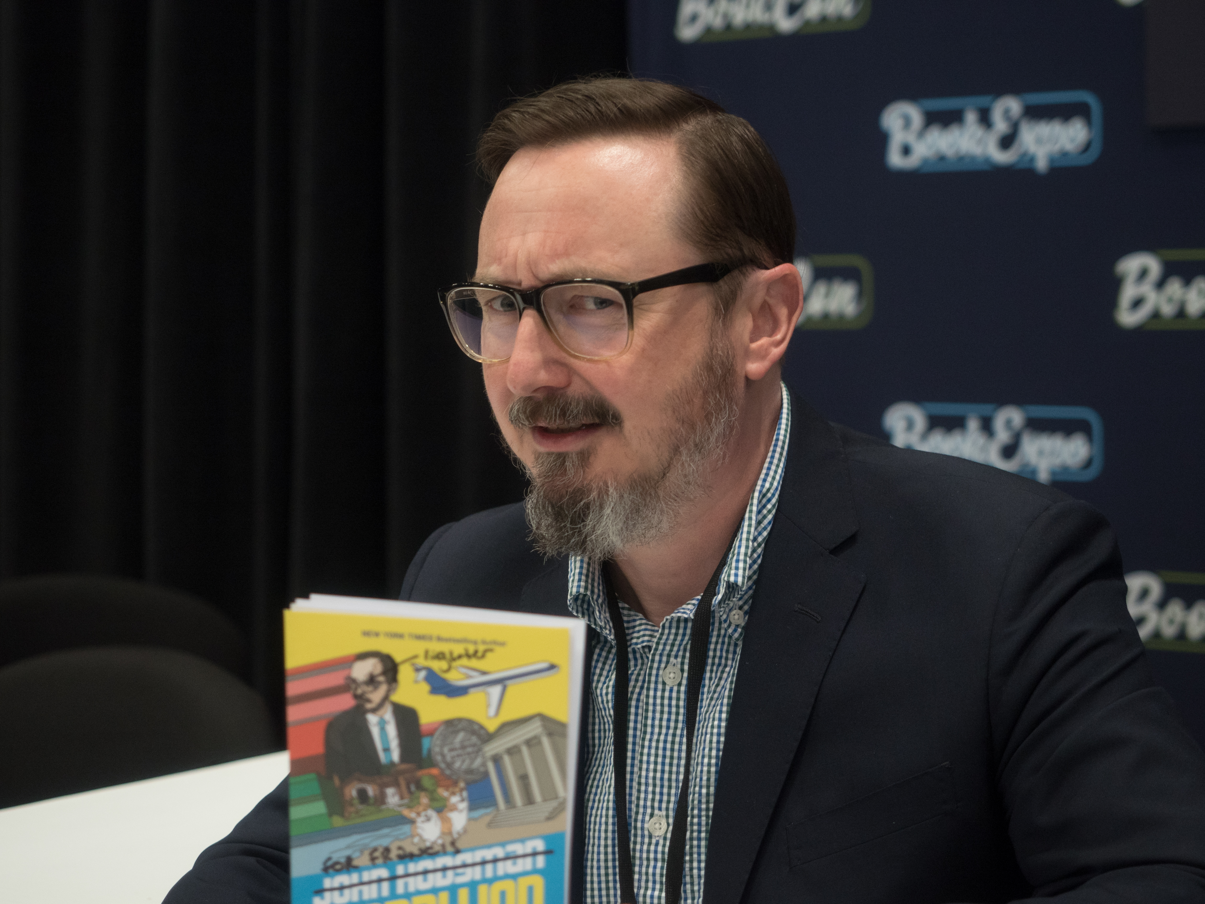 John Hodgman at BookExpo at the Javits Center in New York City, May 2019.